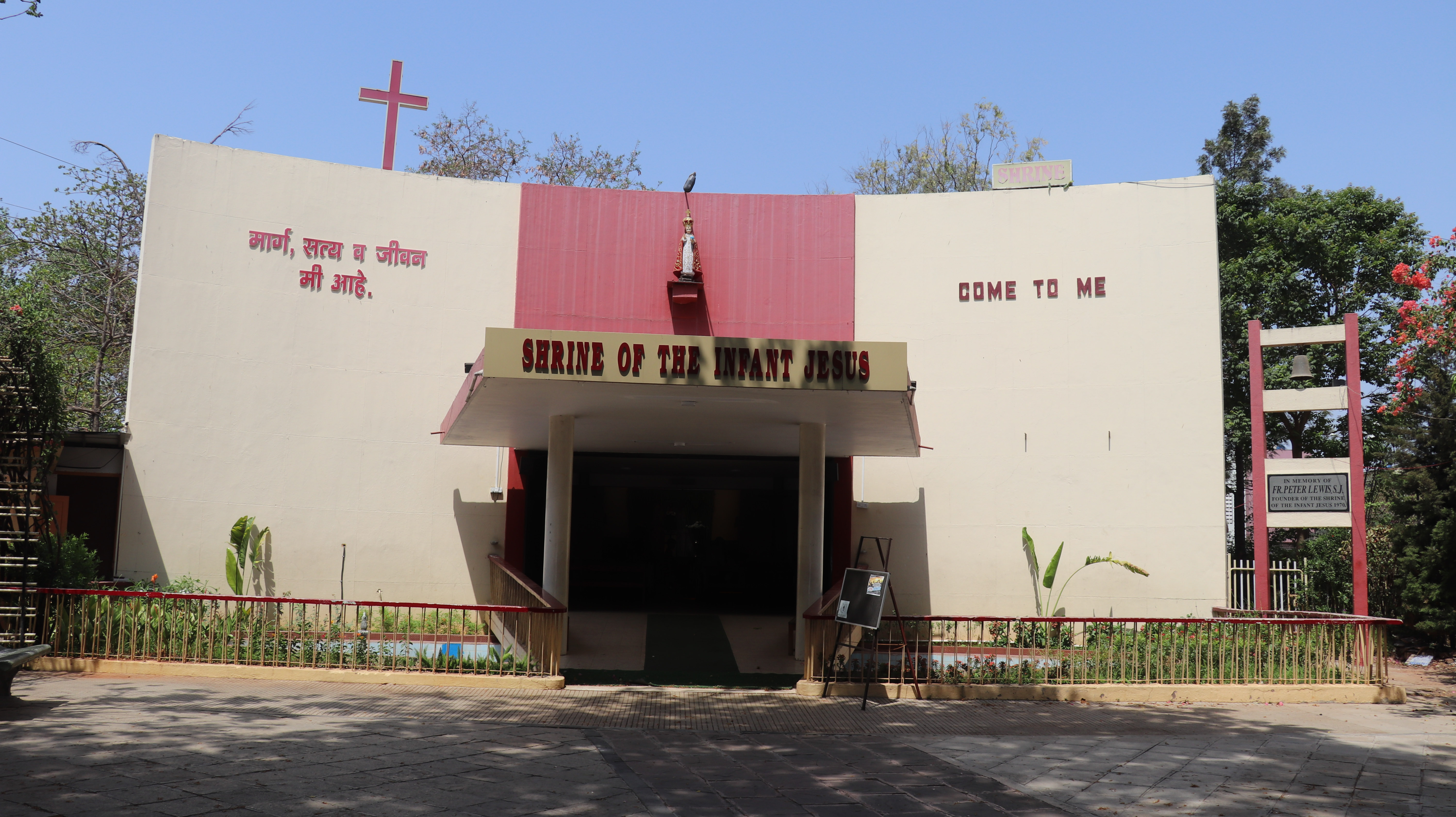 Shrine of the Infant Jesus is located in the suburb of Nashik Road near Nashik city, Nashik district, Maharashtra state, India.